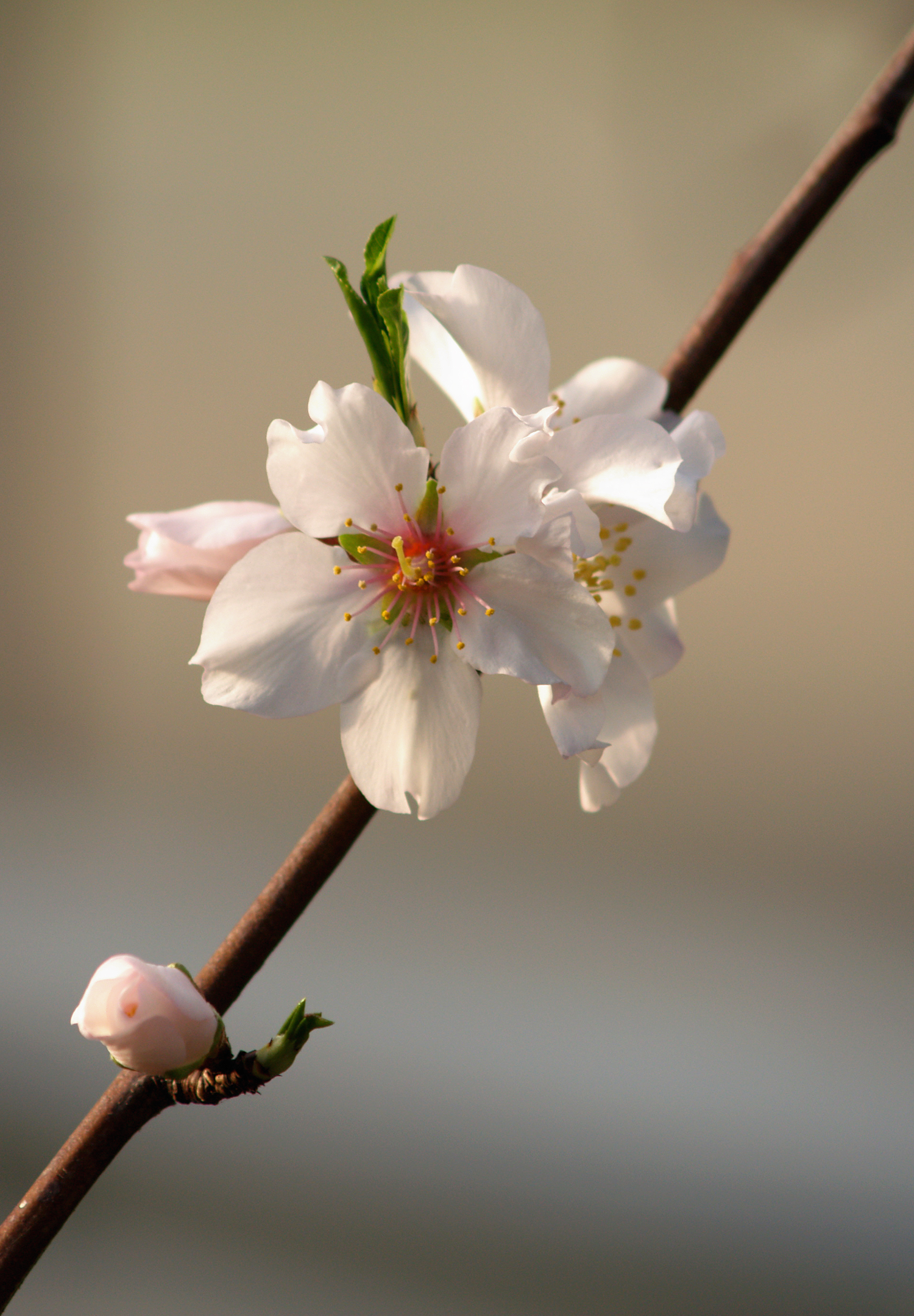 Almond flower (Prunus dulcis)